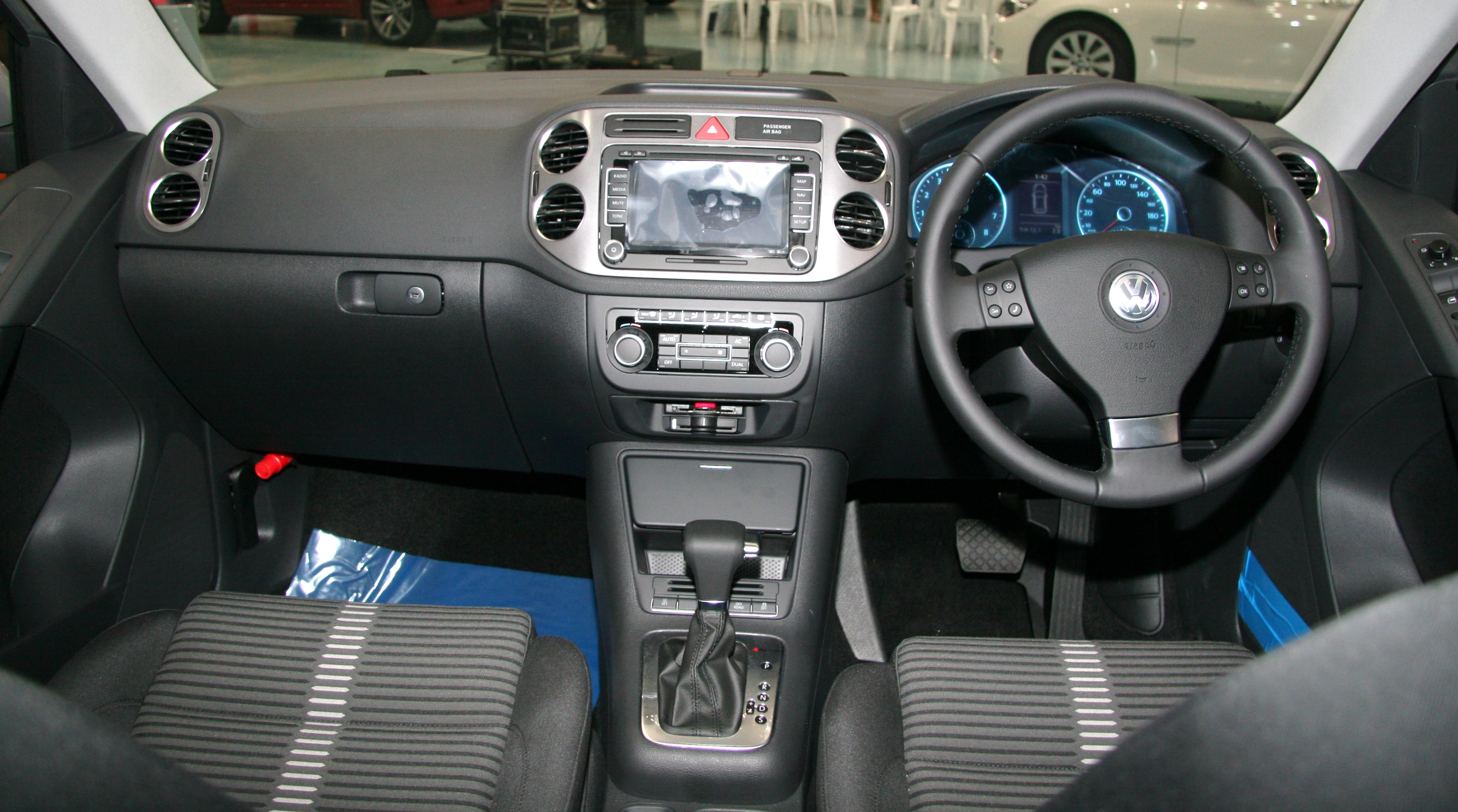 VW Tiguan